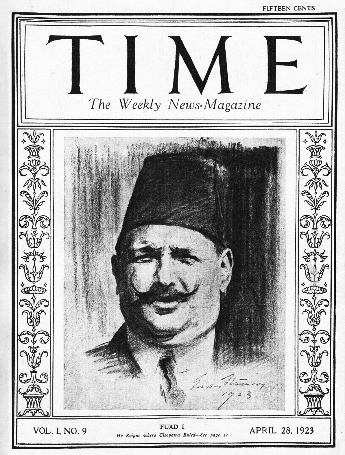 King Fuad I of Egypt appears on the 9th cover of Time Magazine (April 28, 1923). The king is seen wearing a traditional tarboosh over his head. The caption reads: "Fuad I: He Reigns where Cleopatra Ruled". The cover story was entitled "Egypt: A Constitution" and appeared in page 11. See also: List of people on the cover of Time magazine (1920s)